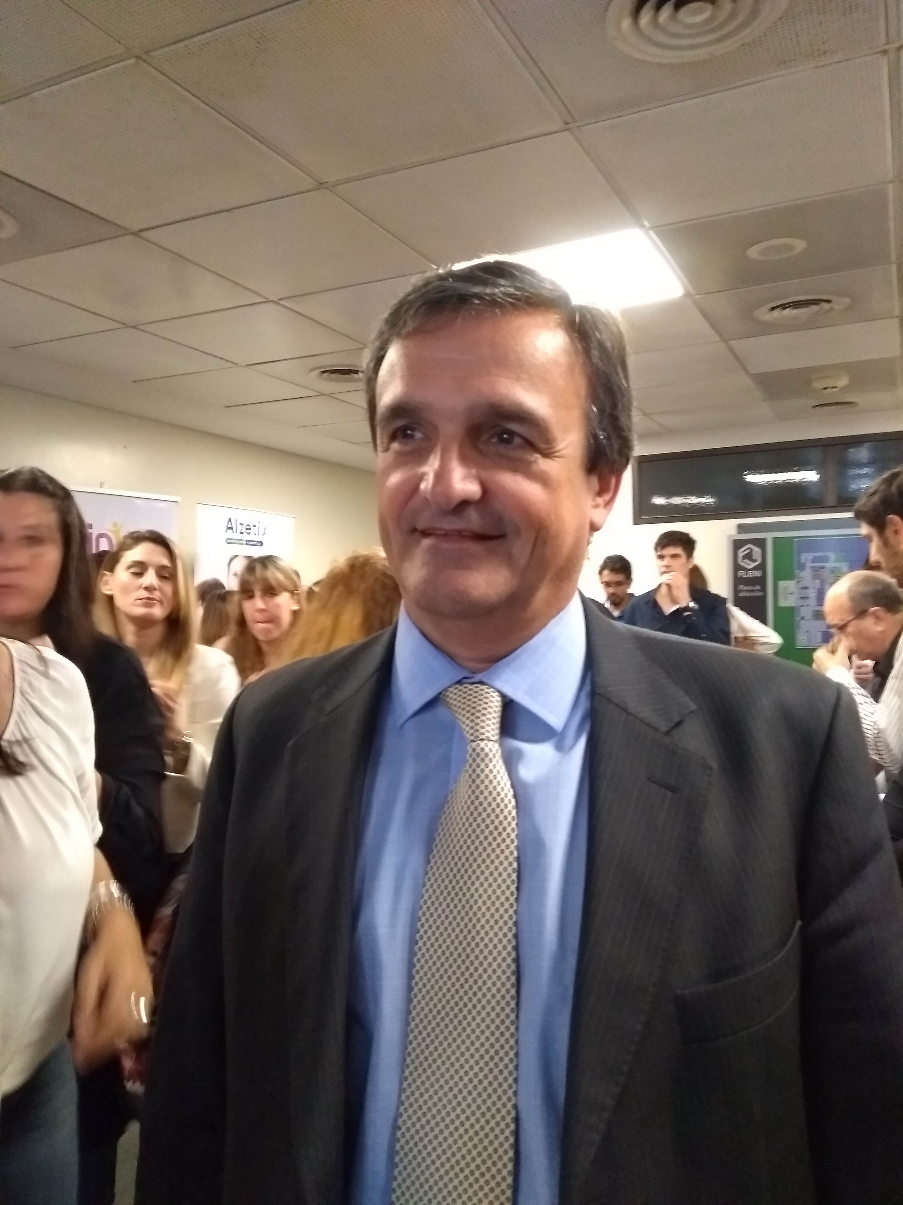 Photo of argentinean neuroscientist Allegri Ricardo